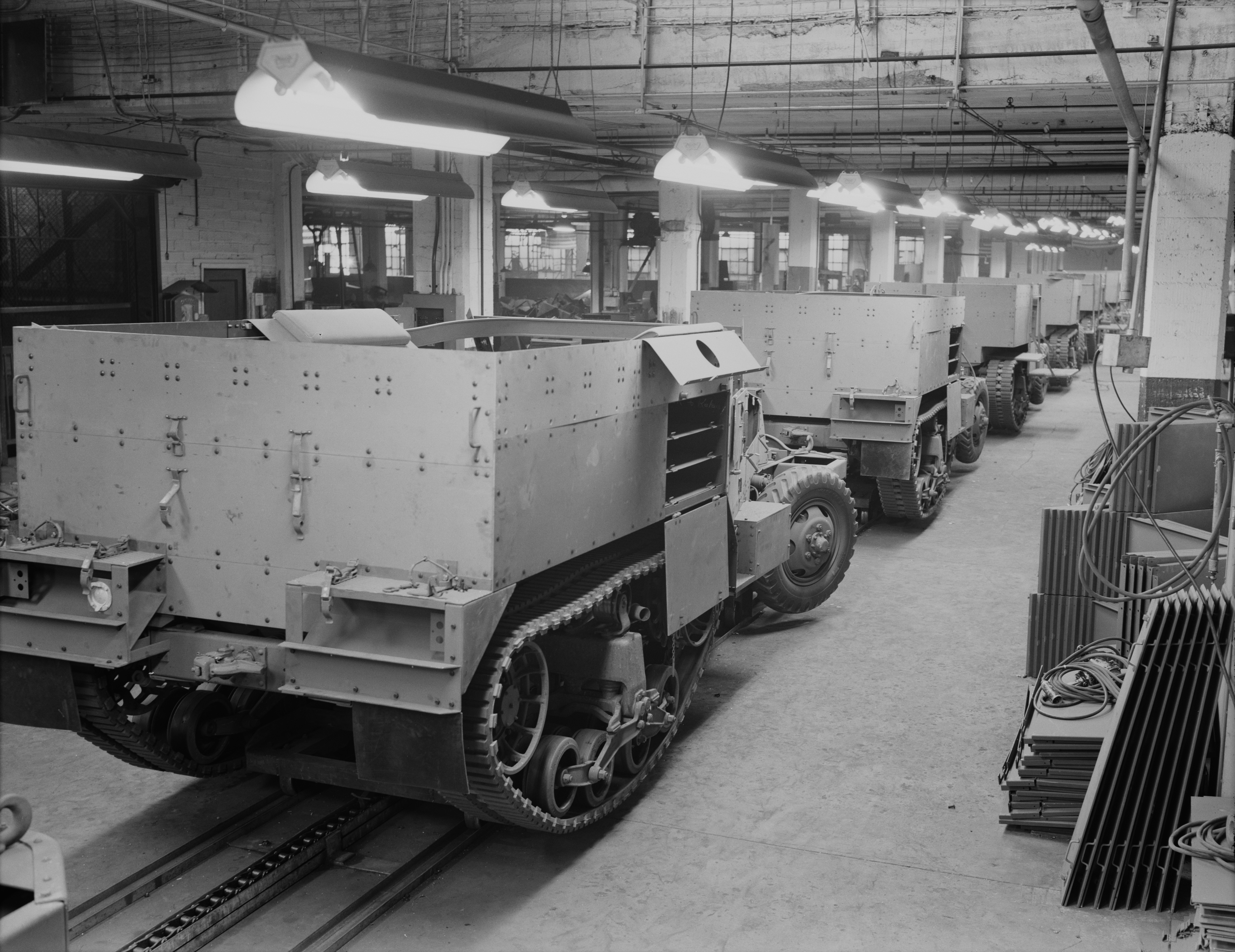 Partly finished halftrac scout cars travel along a moving assembly line in a plant converted from the manufacture of safes and locks. The bodies are made in this plant and mounted on chassis produced in a converted automobile plant. Diebold Safe and Lock Company, Canton, Ohio.